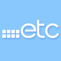 ETC Logo